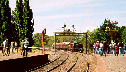 19th December 2004: the first regular passenger carrying train from Maldon approaches Castlemaine station, marking the return of regularly scheduled passenger rail services between Castlemaine and Maldon for the first time since the 1940s.